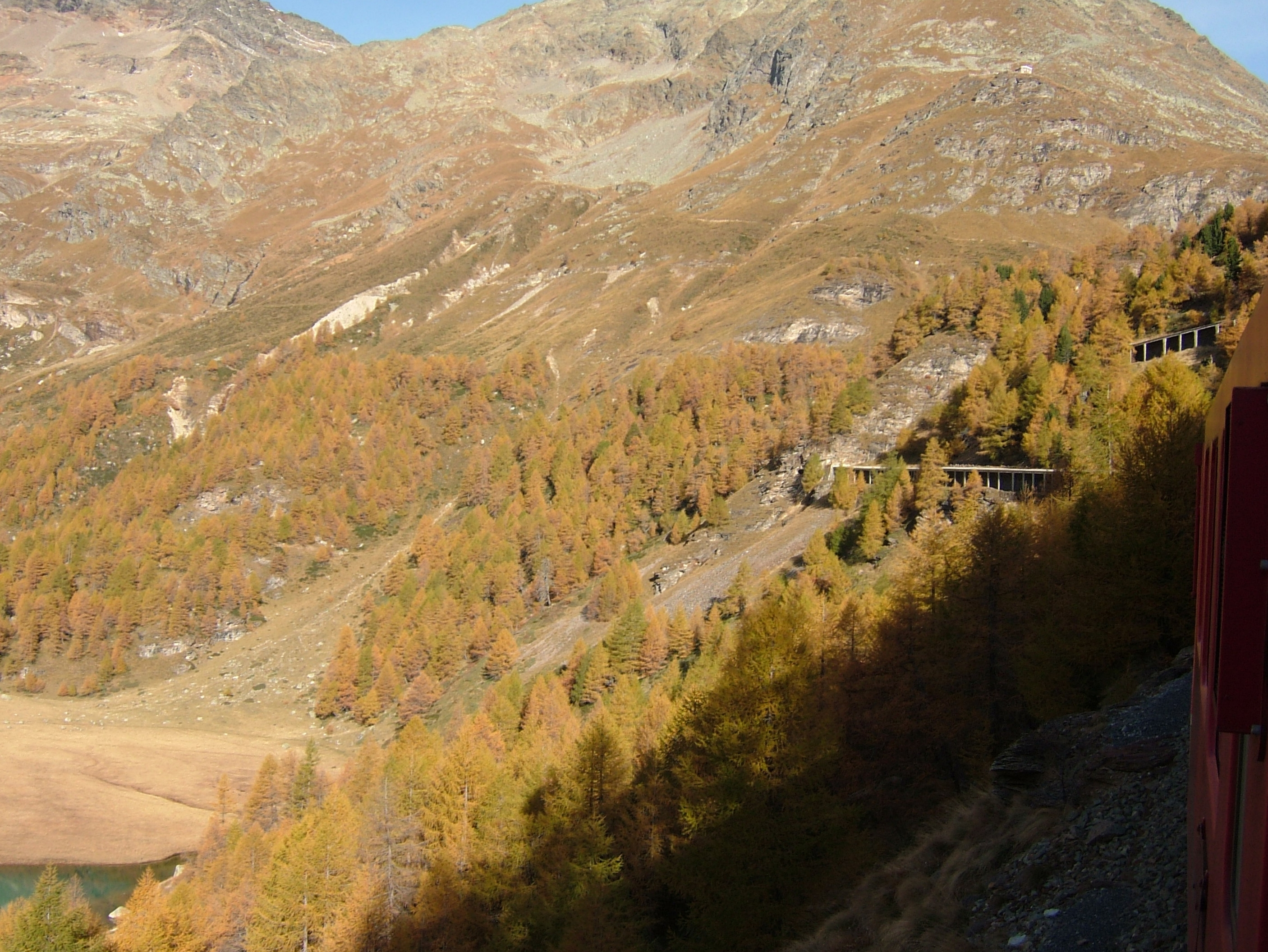 Bernina railwayDeployment between Bernina Pass and Poschiavo with Upper Palü Gallery and Lower Palü Gallery and the Palü loop tunnel inbetween amidst larches